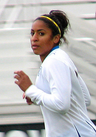 Chioma Igwe of the (WPS) Womens Professional Soccer Club, Boston Breakers.